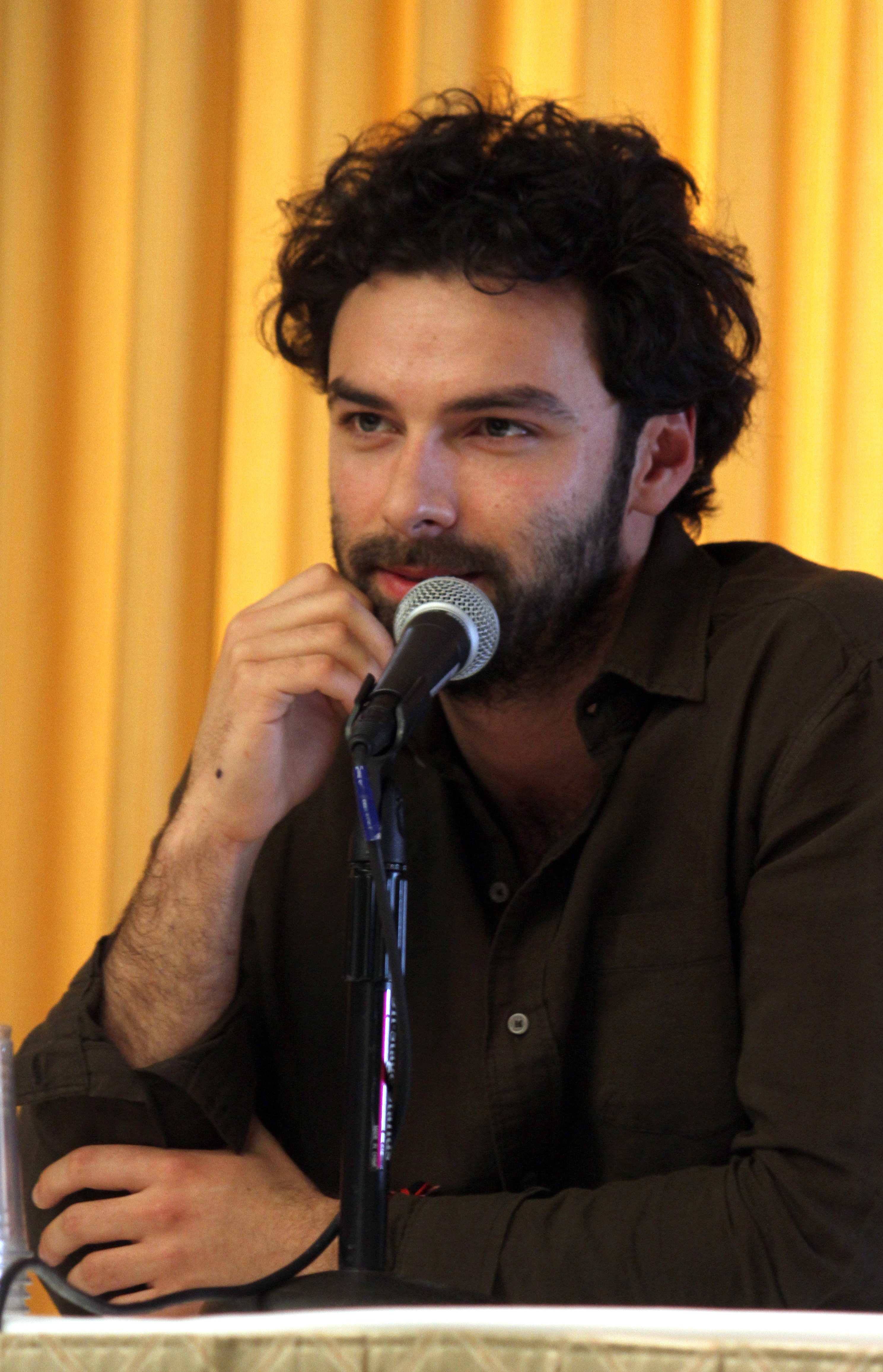 Aidan Turner during The Hobbit Q&A at Boston Comicon. Photo by Maria Uminski